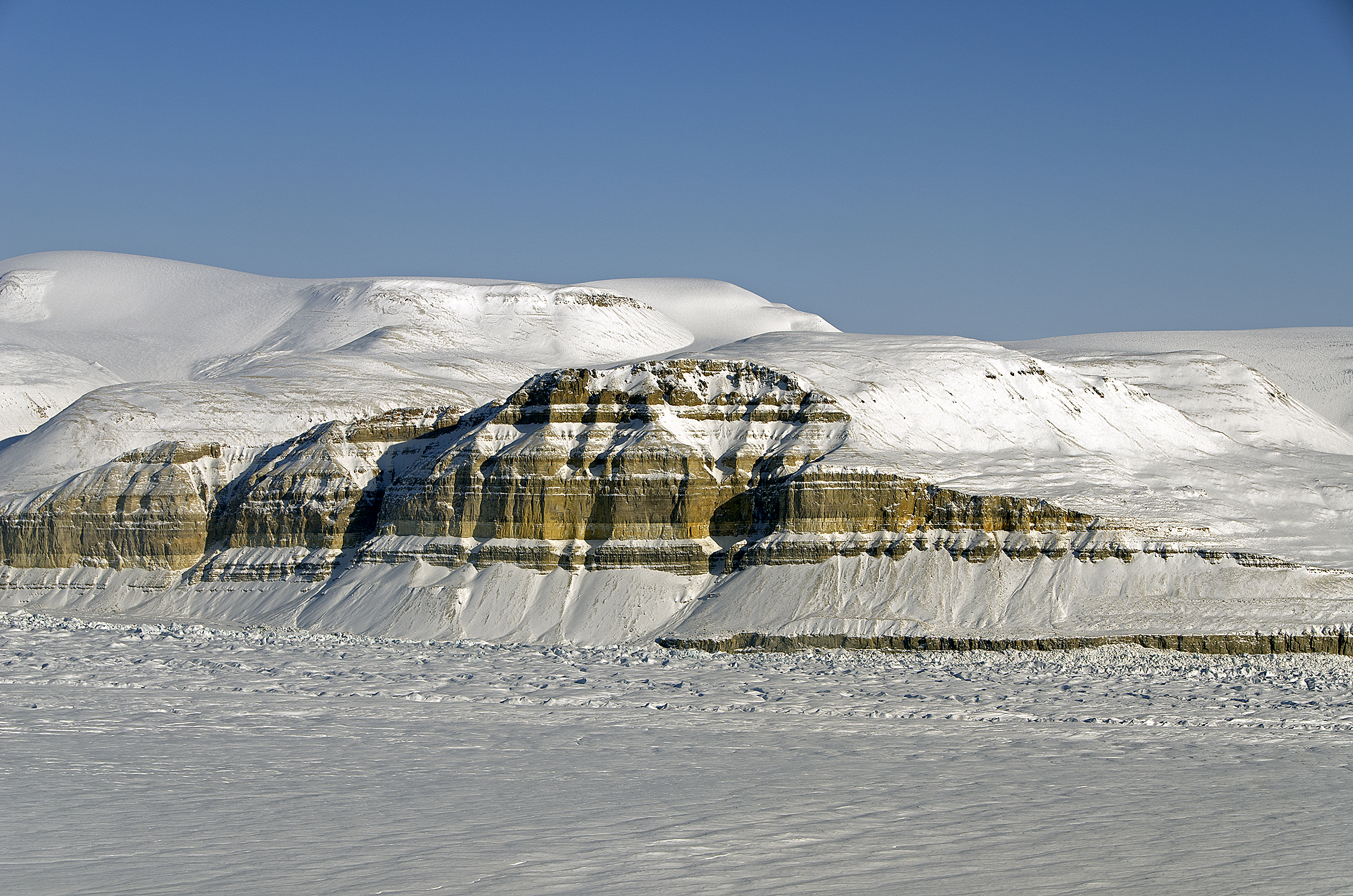 A view of one of the Petermann Glacier valley walls in northern Greenland from NASA's P-3B research aircraft.